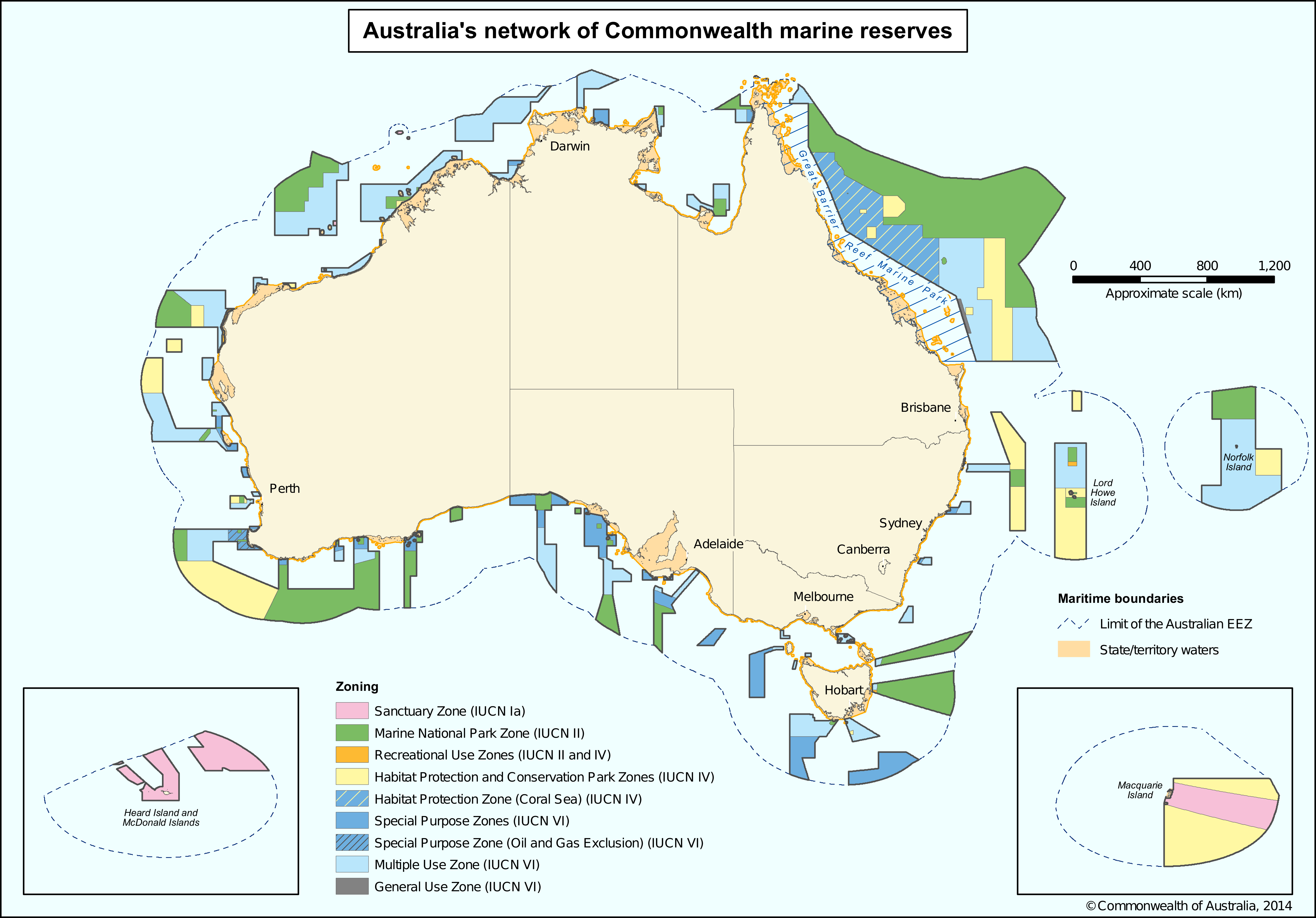 National map of Commonwealth marine reserves. Reserves are managed by the federal government of Australia and are within the bounds of the Australian EEZ.